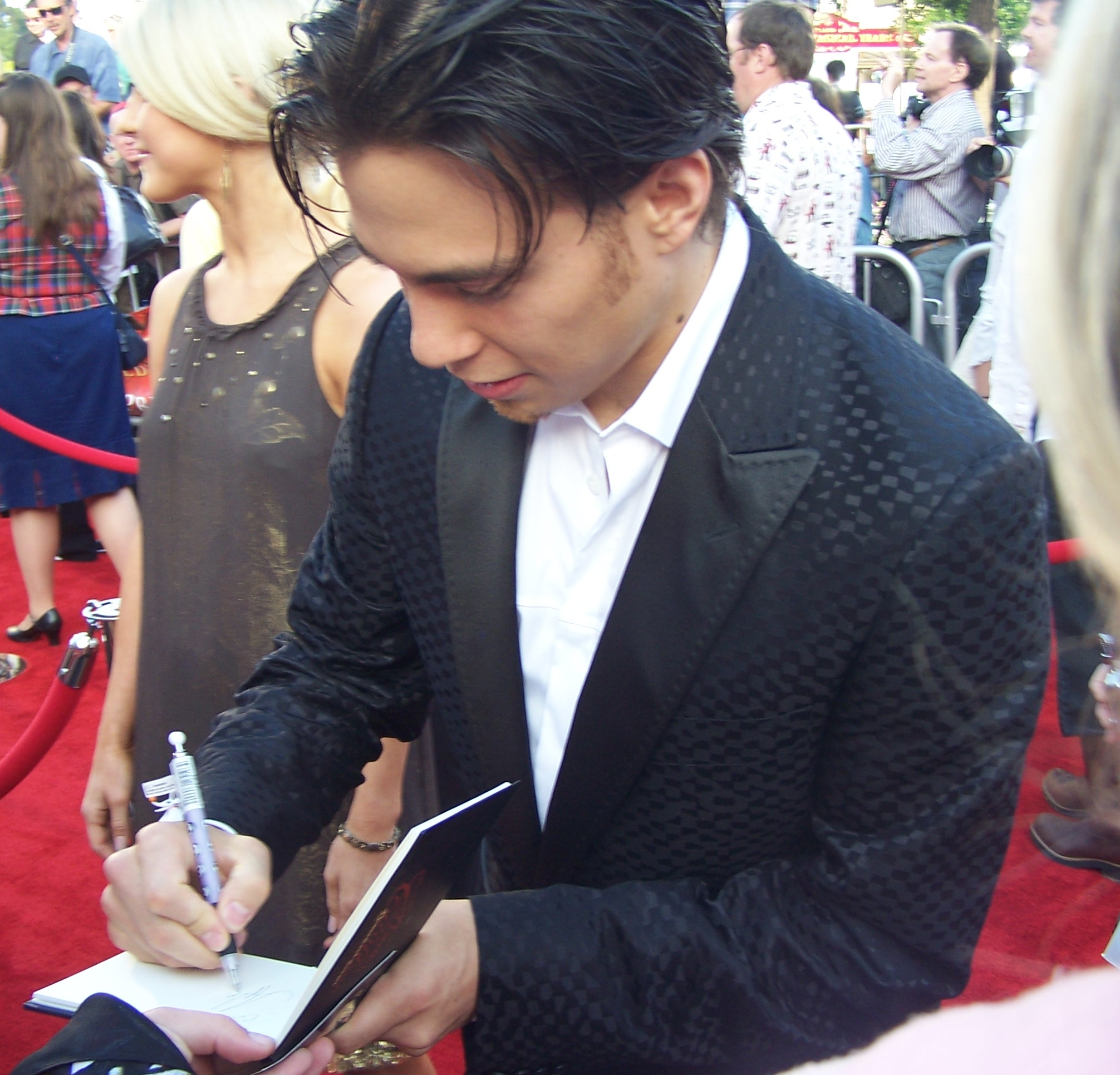 Apolo Anton Ohno at the premiere of Pirates of the Caribbean 3.